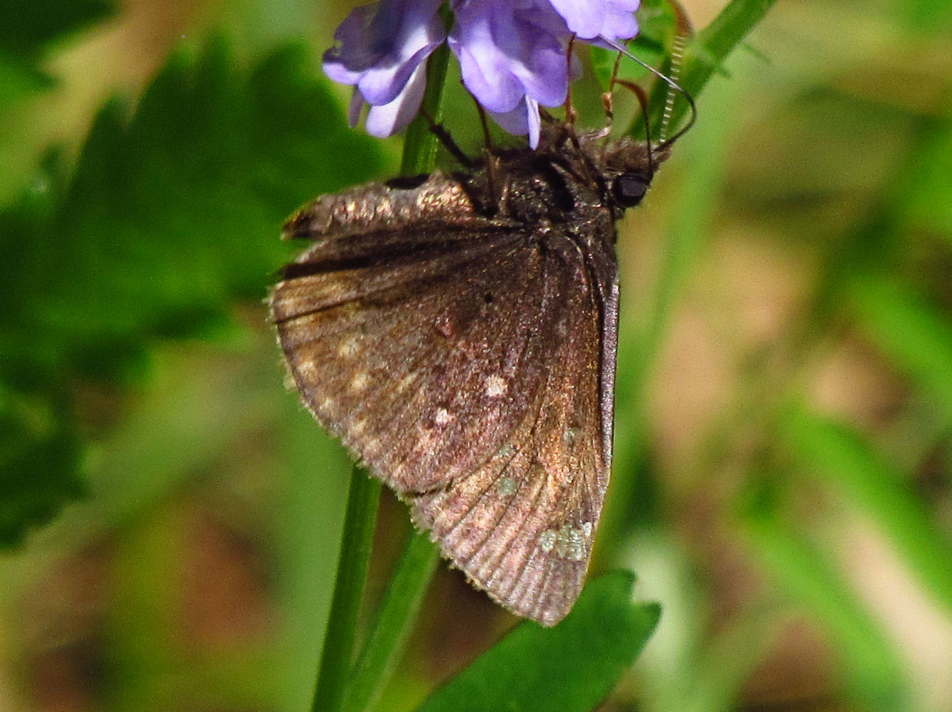 Juvenal's Duskywing (Erynnis juvenalis), ventral, Ottawa, Ontario, Canada